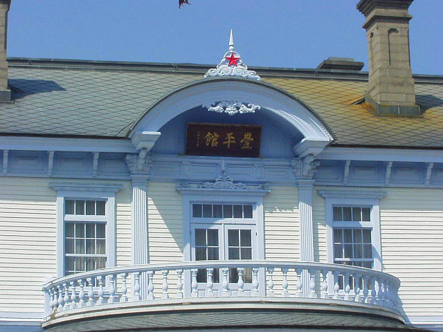 Chuo Ward. Nakajima Park. The balcony of "Hoheikan", Sapporo, Japan.